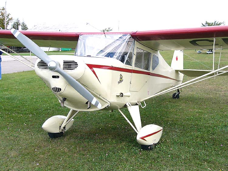 I took this photo of a Fleet Canuck (CF-DPZ) at Smiths Falls Airport October 3rd, 2004.